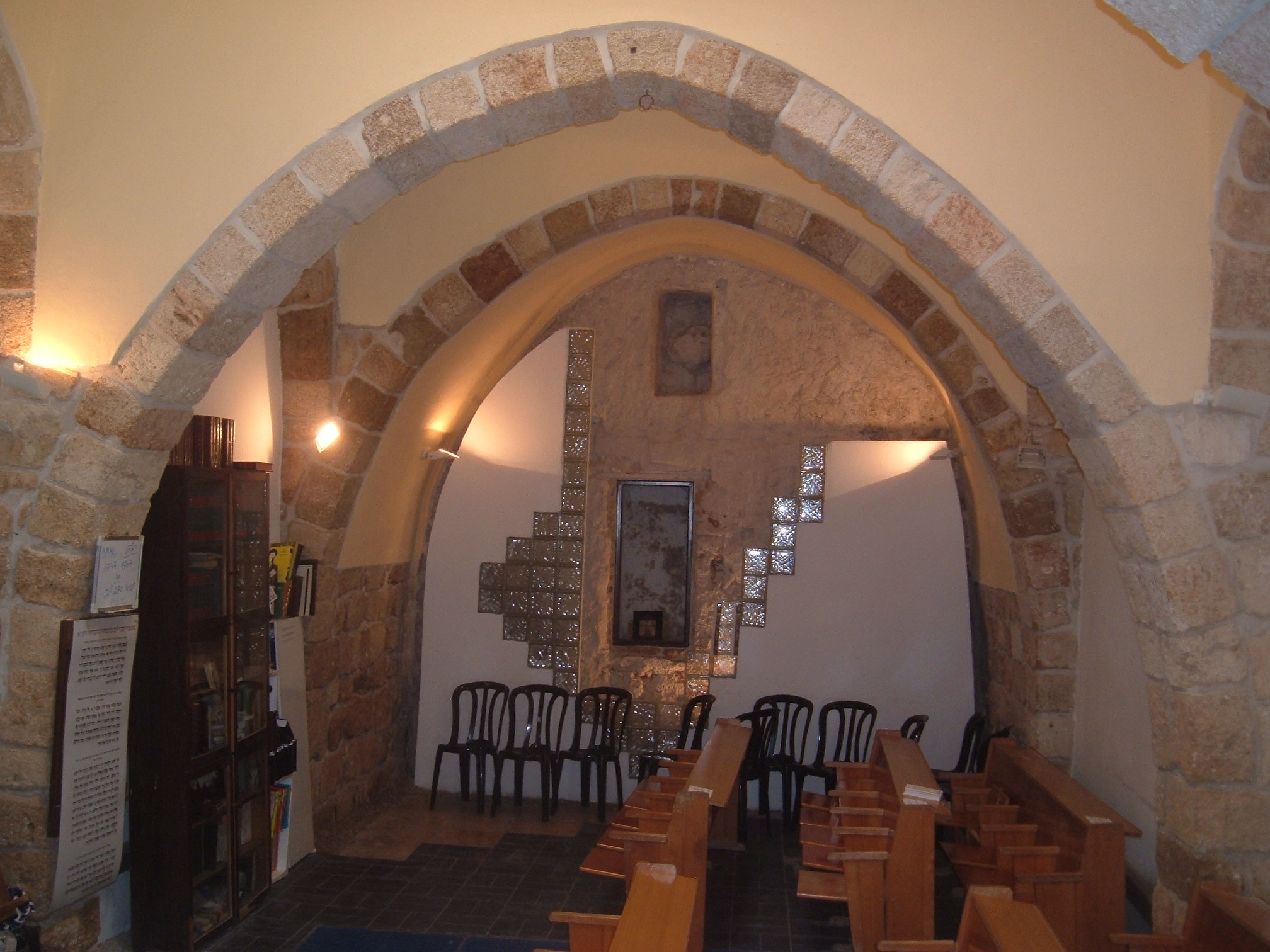 Ramkhal synagogue Acre, Israel בית כנסת הרמח"ל, עכו